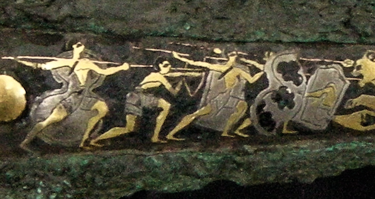 Lama di pugnale miceneo con decorazione in oro in agèmina. Particolare. 1550-1500 a.C. Atene, Archeologico Nazionale.